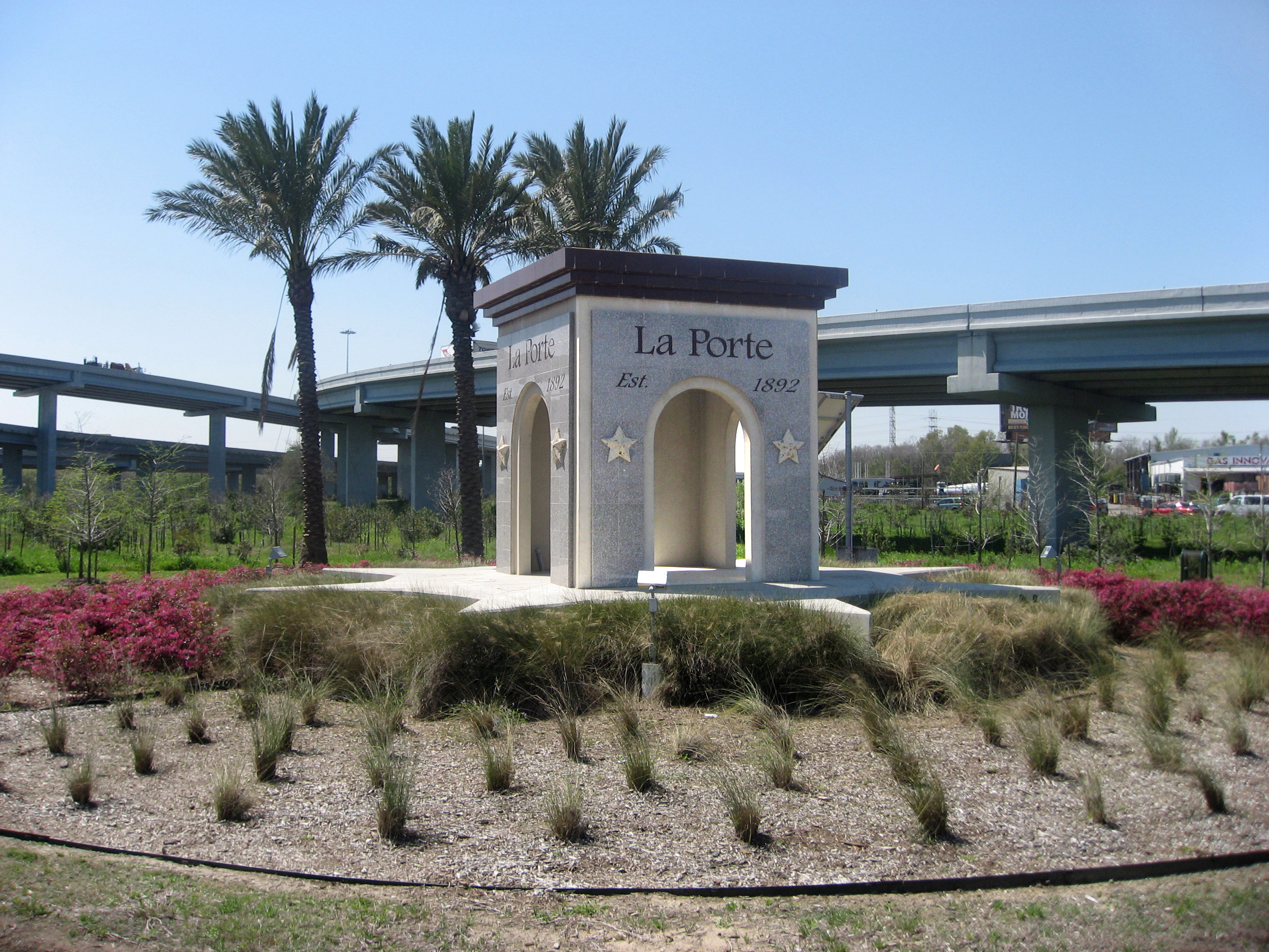 This display is below elevated highways